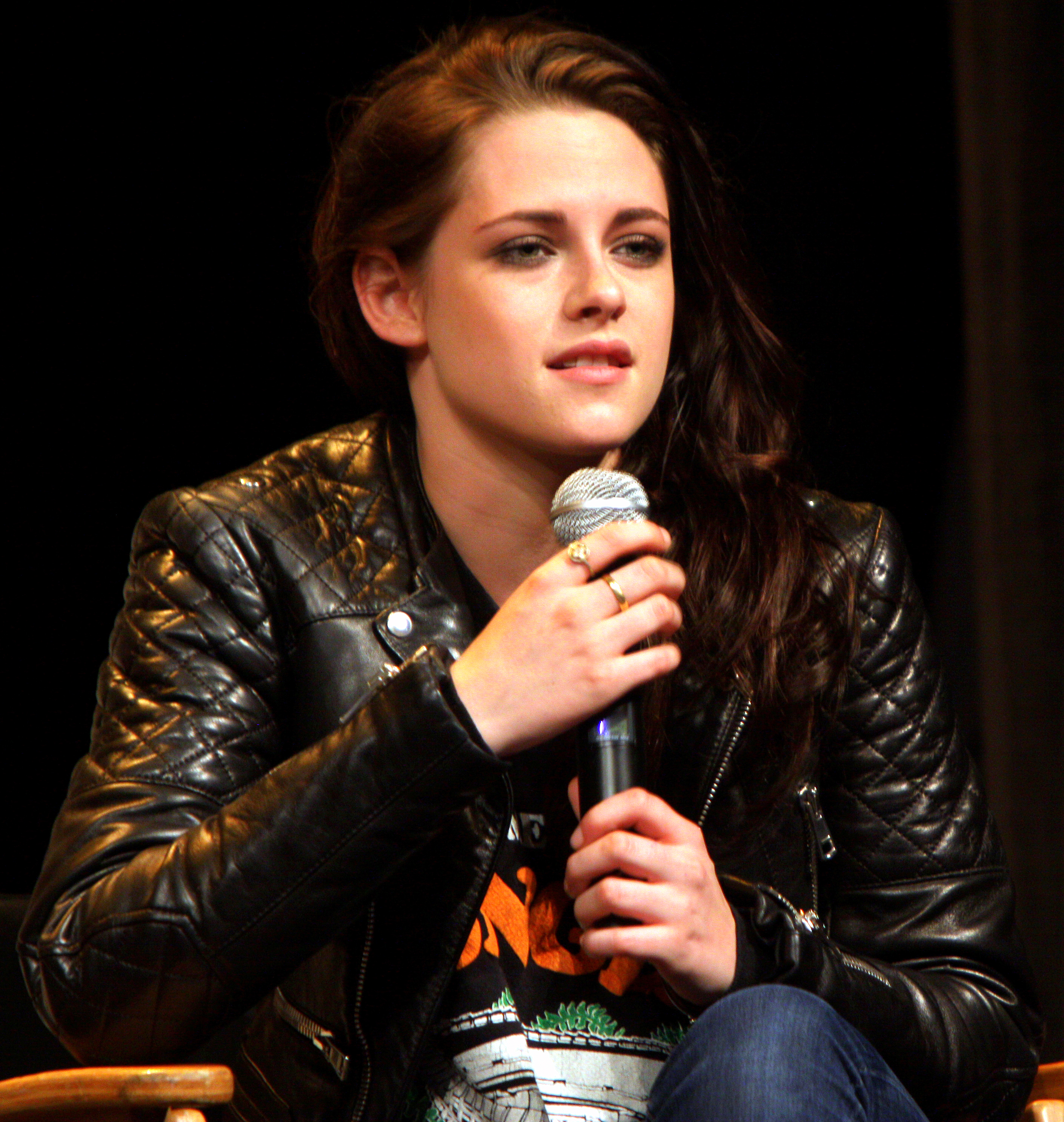 Kristen Stewart speaking at Wondercon 2012 in Anaheim, California on March 17, 2012.